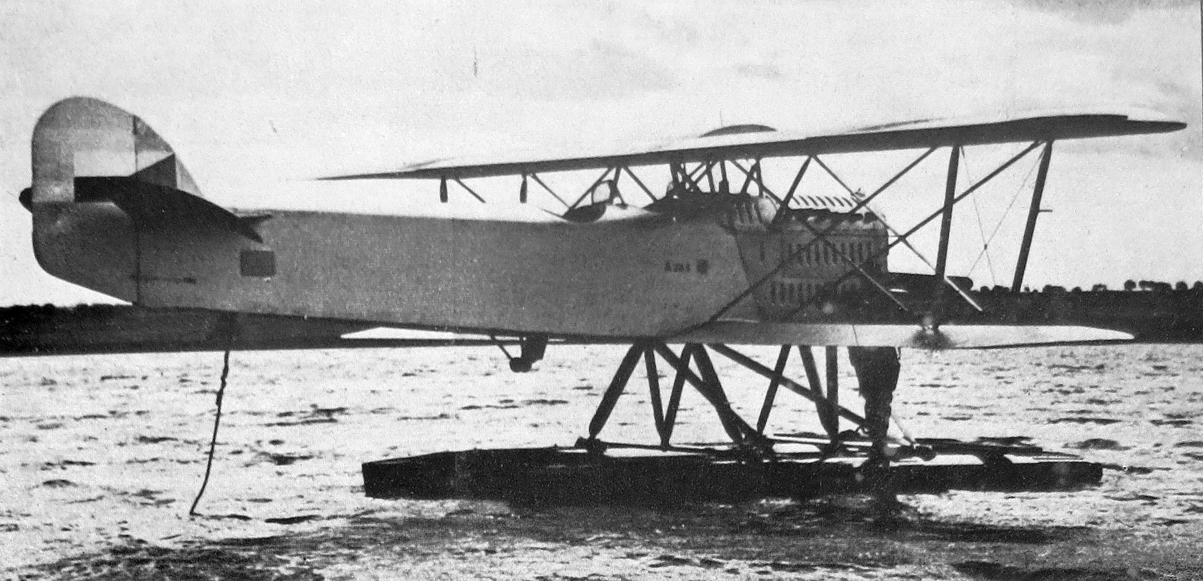 Aero A 29 in Bay of Kotor